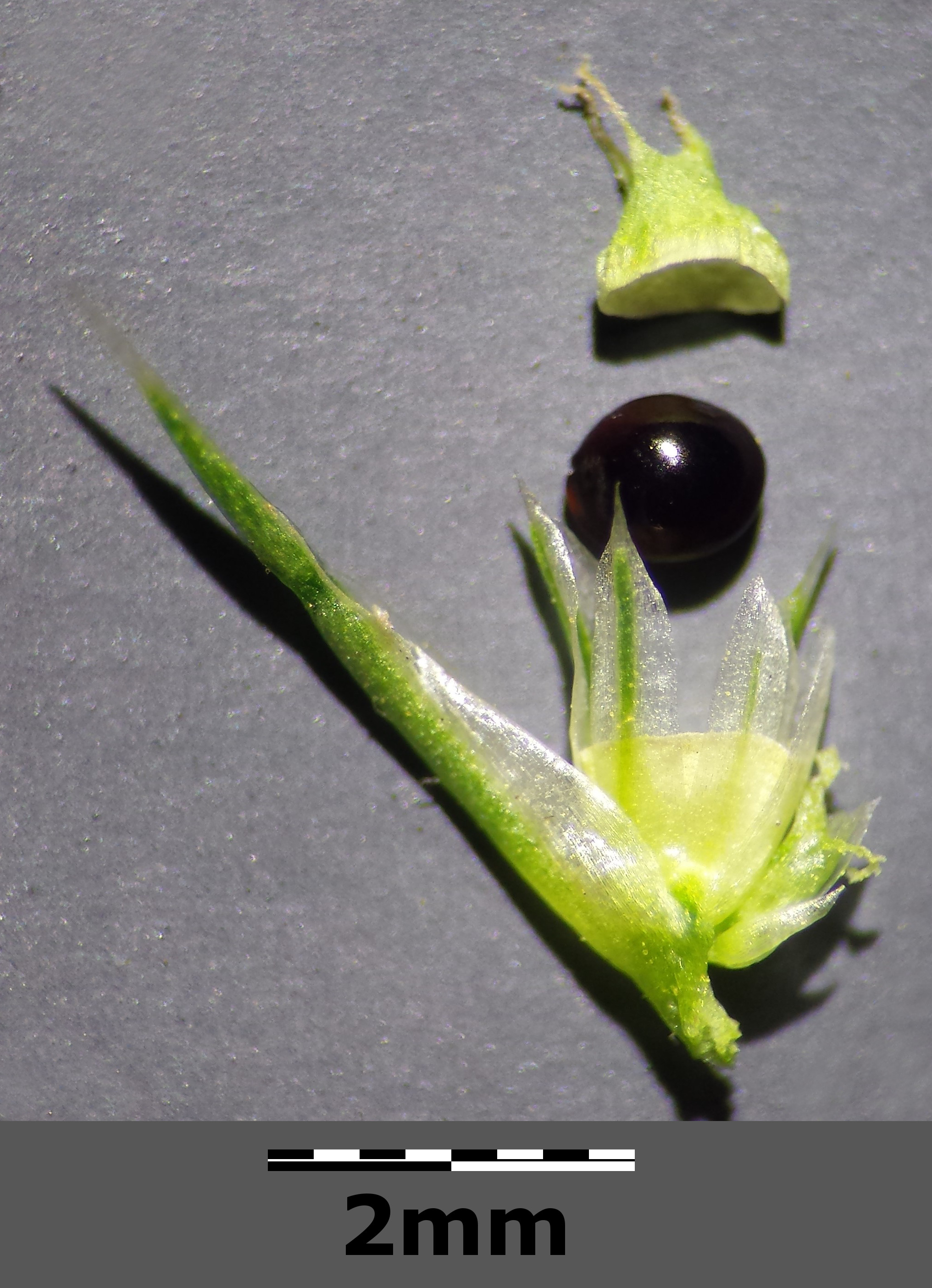 Opened fruit with seed and bracteole Taxonym: Amaranthus powellii subsp. powellii ss Fischer et al. EfÖLS 2008 ISBN 978-3-85474-187-9 Location: Strebersdorf, Vienna-Floridsdorf - ca. 160 m a.s.l. Habitat: border of a field